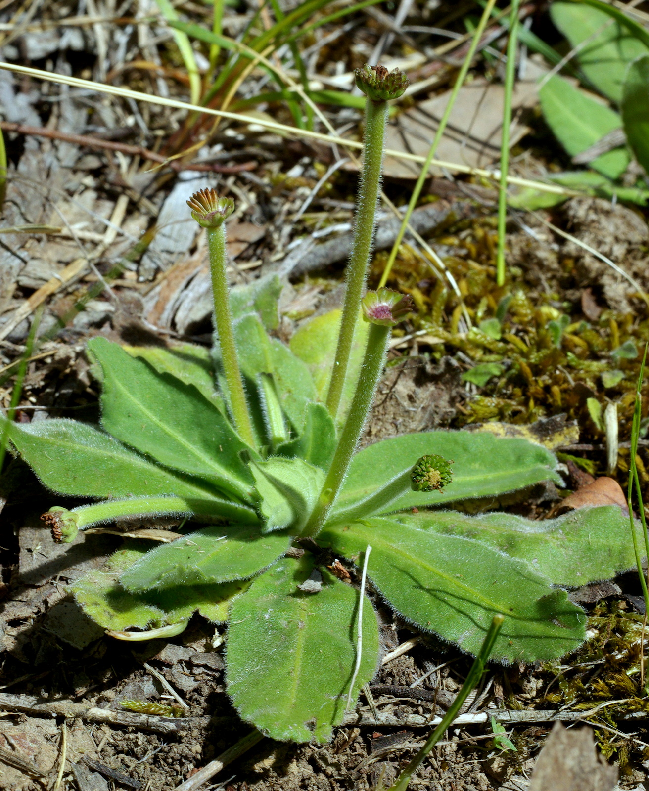 Small perennial herb. Leaves and stems covered with fine hairs. Flowers mostly Dec - May